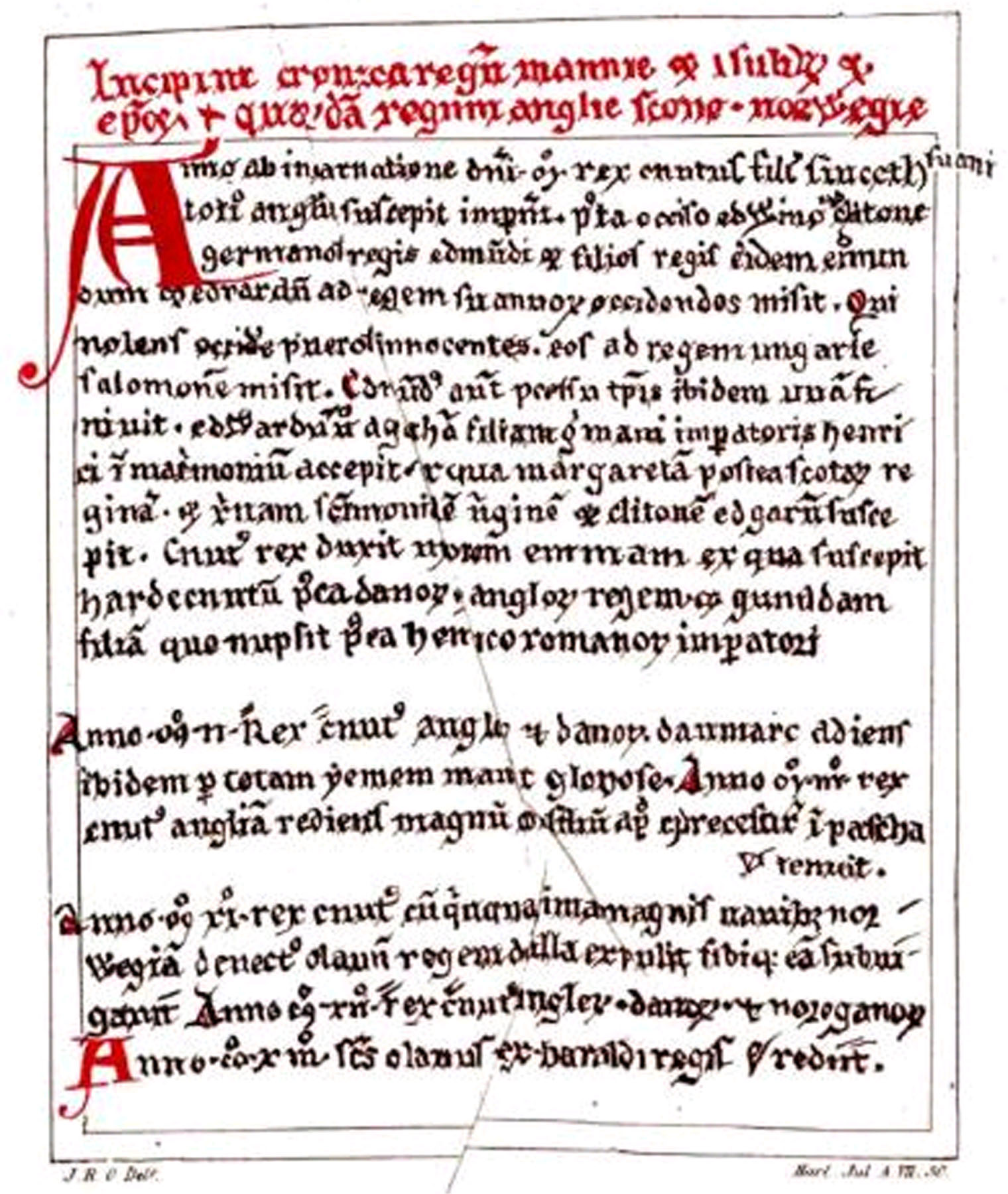 Facsimile of the first page of the Chronicles of Mann and the Isles